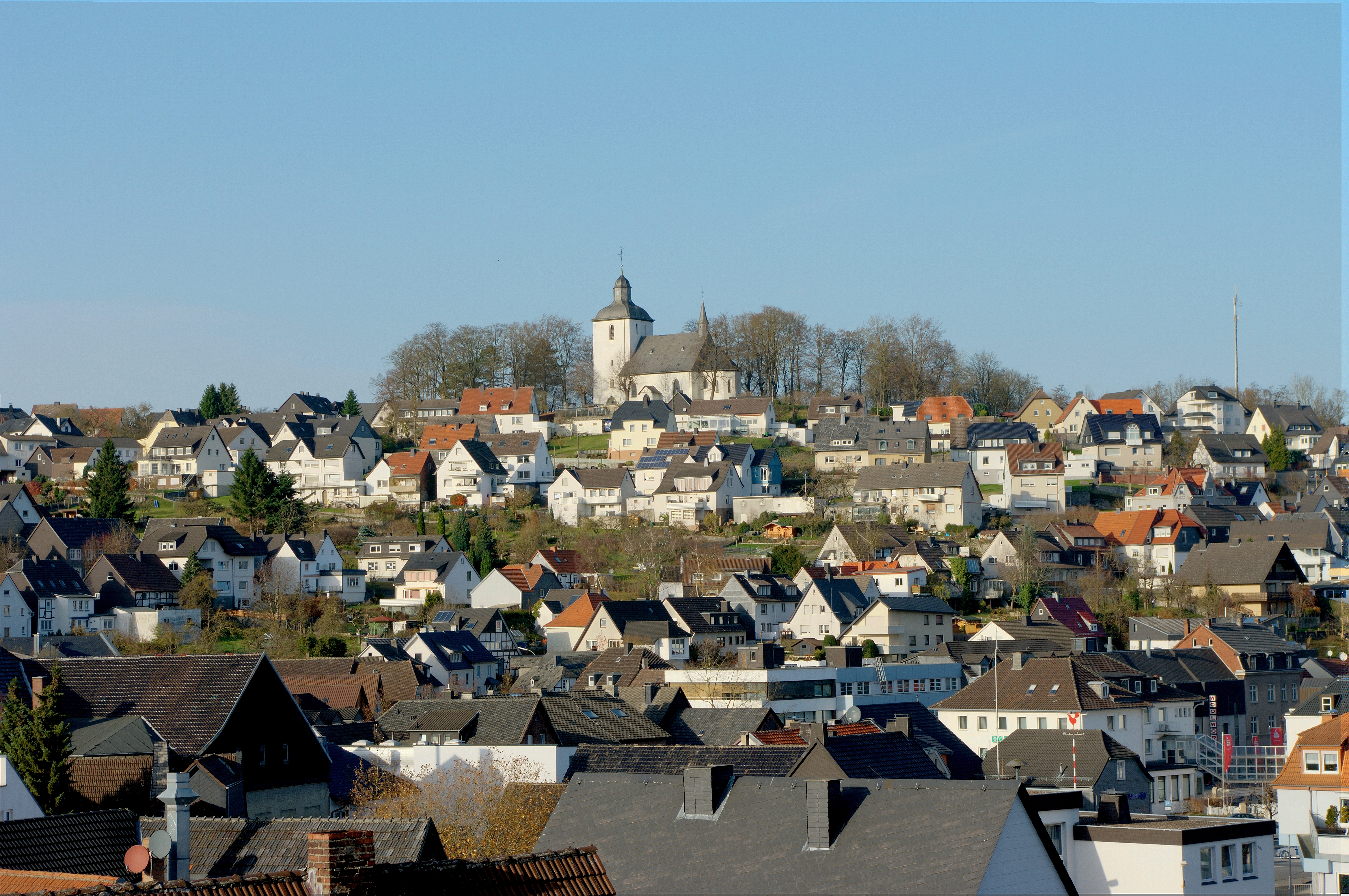 Warstein - the Old Church